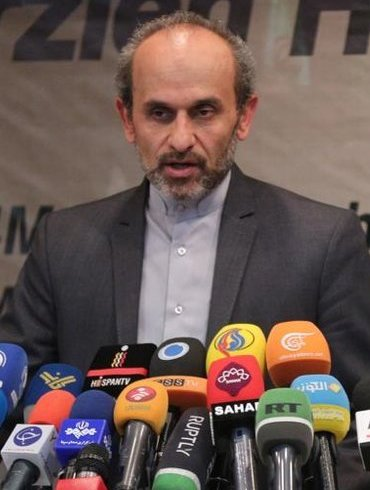 Peyman Jebelli